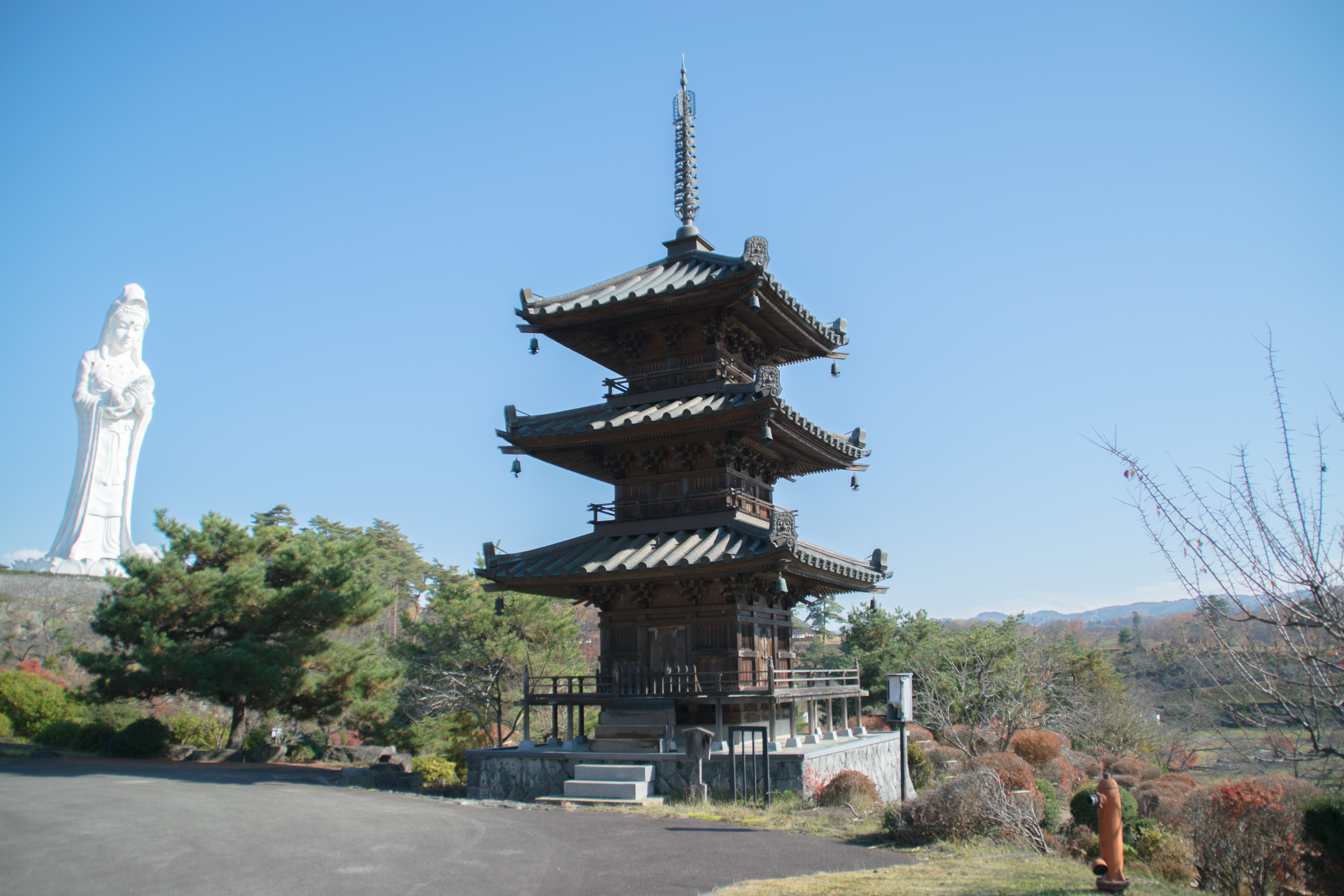 Aizu Kannon and Three-storied Pagoda are located at a temple named Aizu Village in Aizuwakamatsu, Fukushima pref Japan.